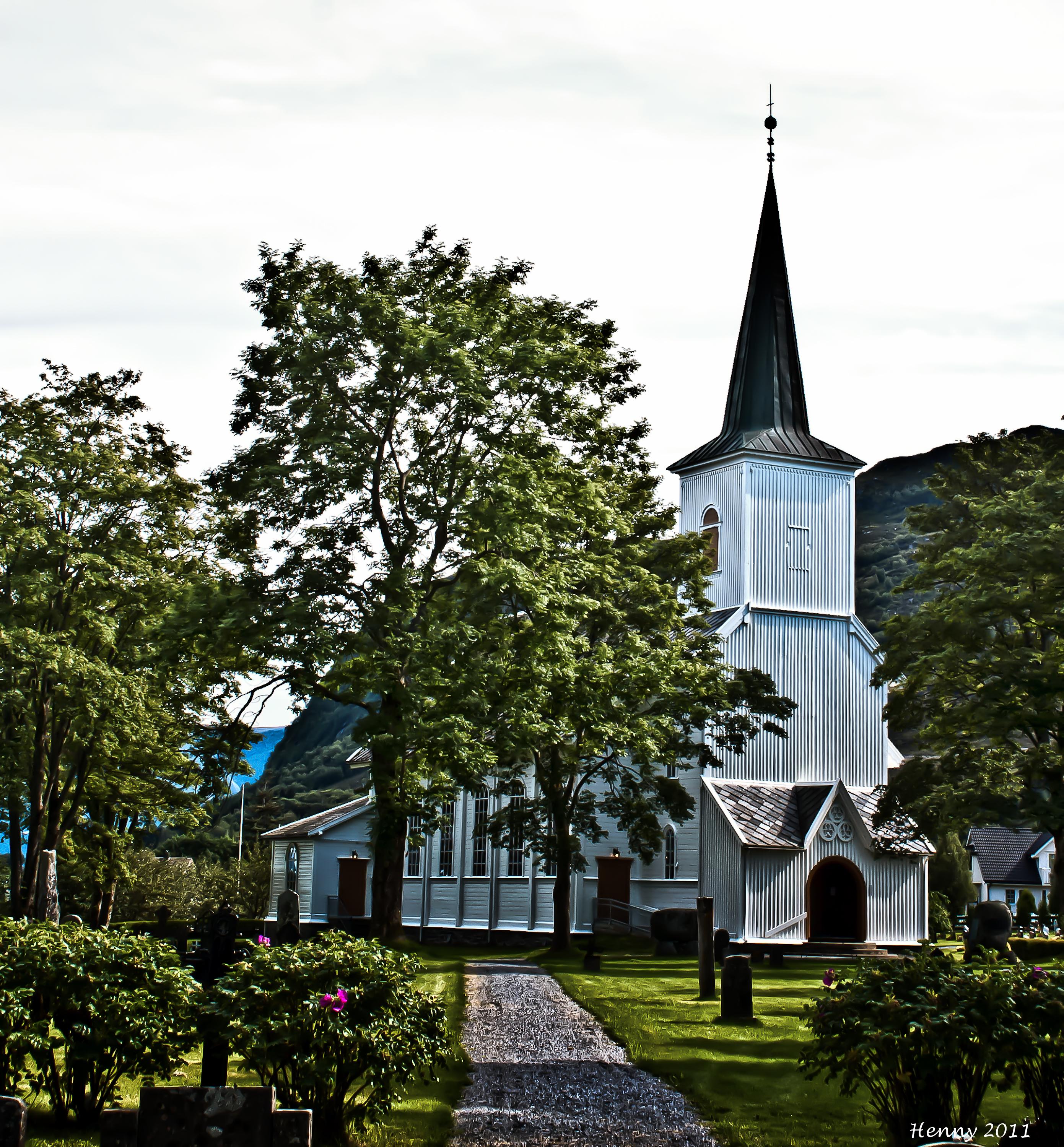 Hareid church in Hareid, Møre og Romsdal, Norway, from 1877.